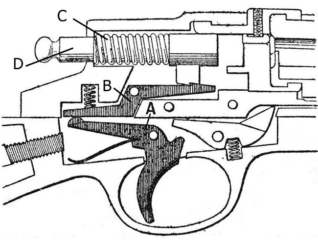 Trigger mechanism bf 1923 with description labels.